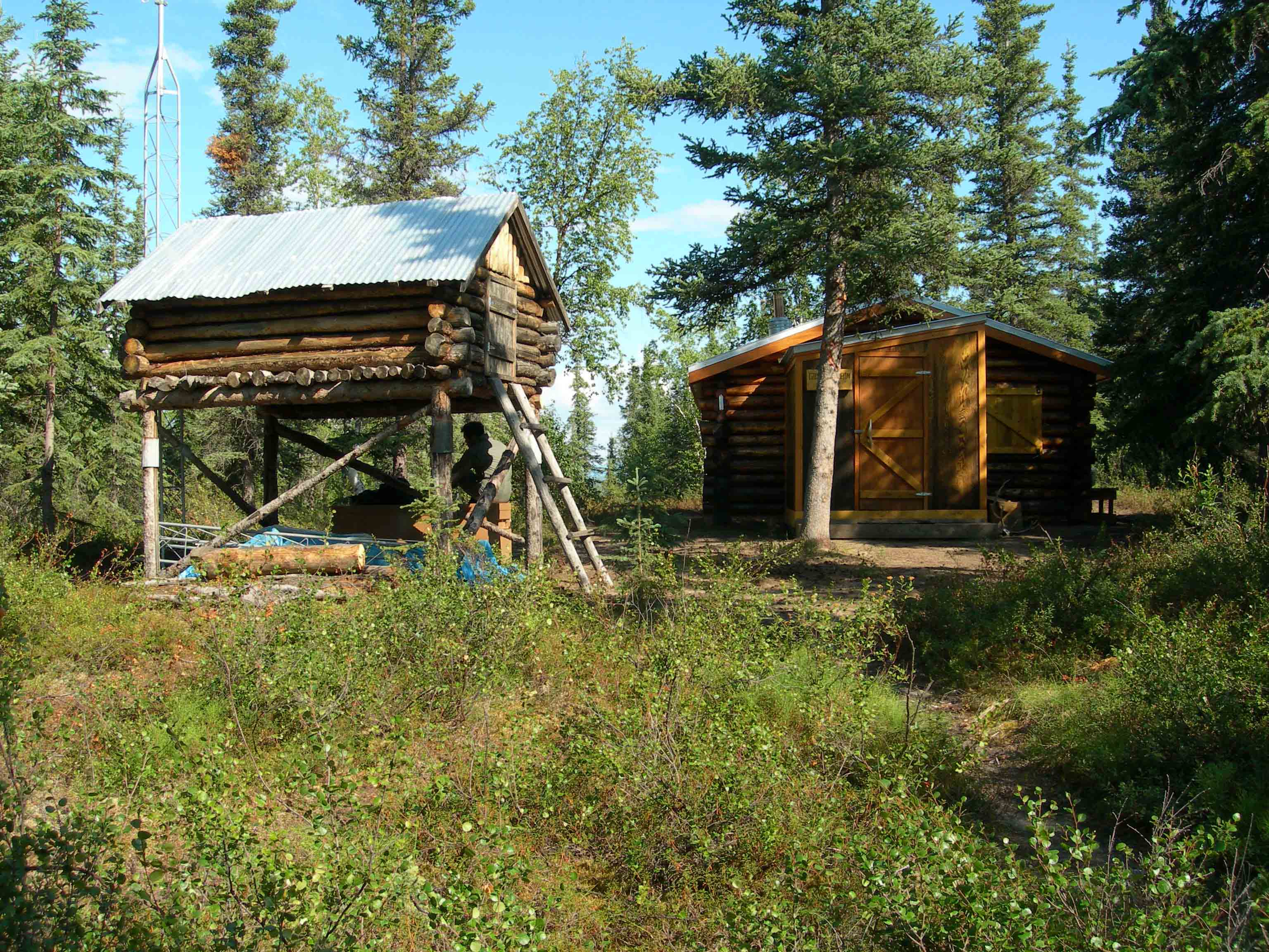 Backcountry cabin and cache in Kobuk Valley National Park built by archeologist J. Louis Giddings, prior to the establishment of the park. Log cabin and log cache surrounded by spruce trees.